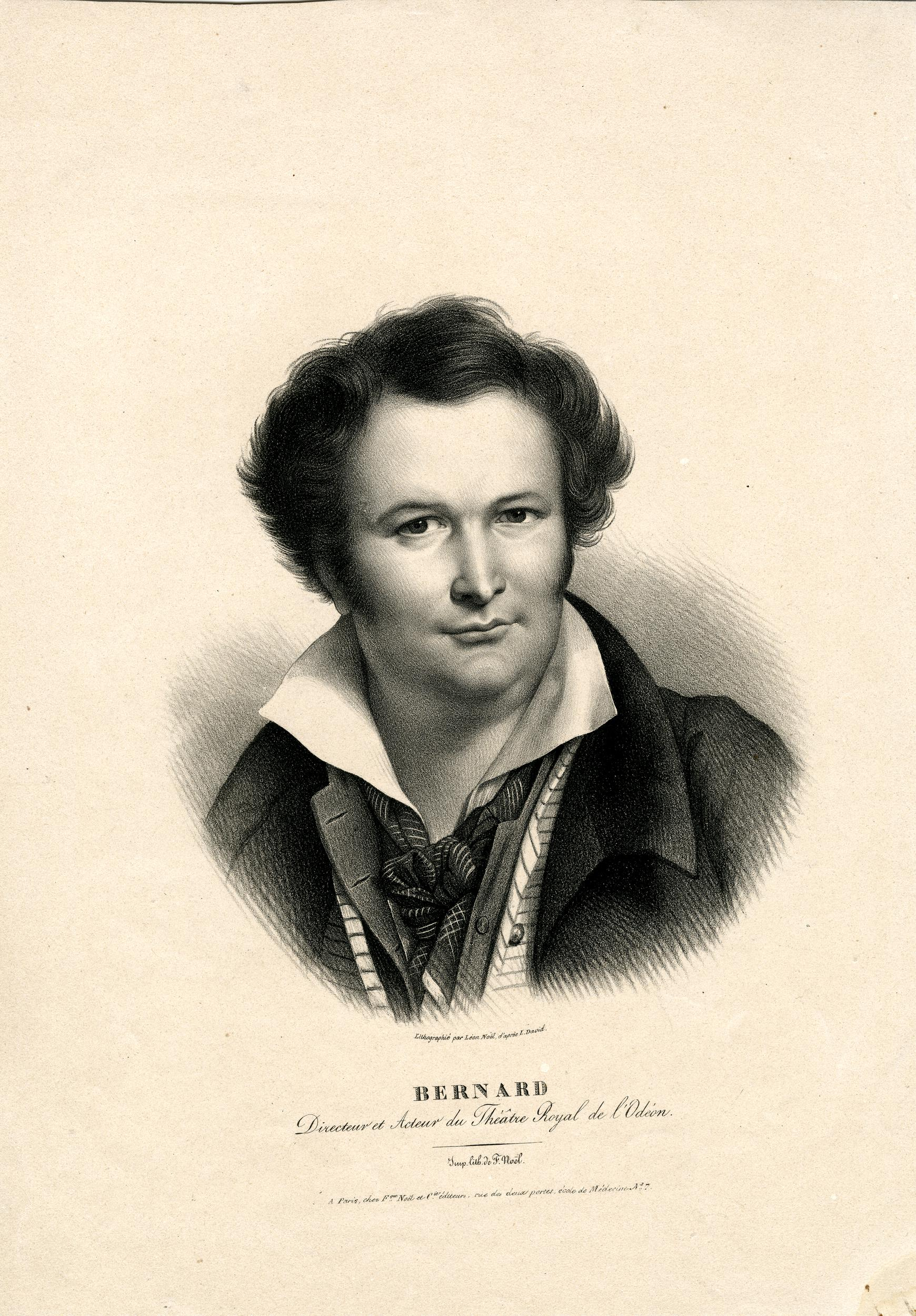 Portrait of French actor Bernard, head and shoulders, looking to front. 1825 Lithograph